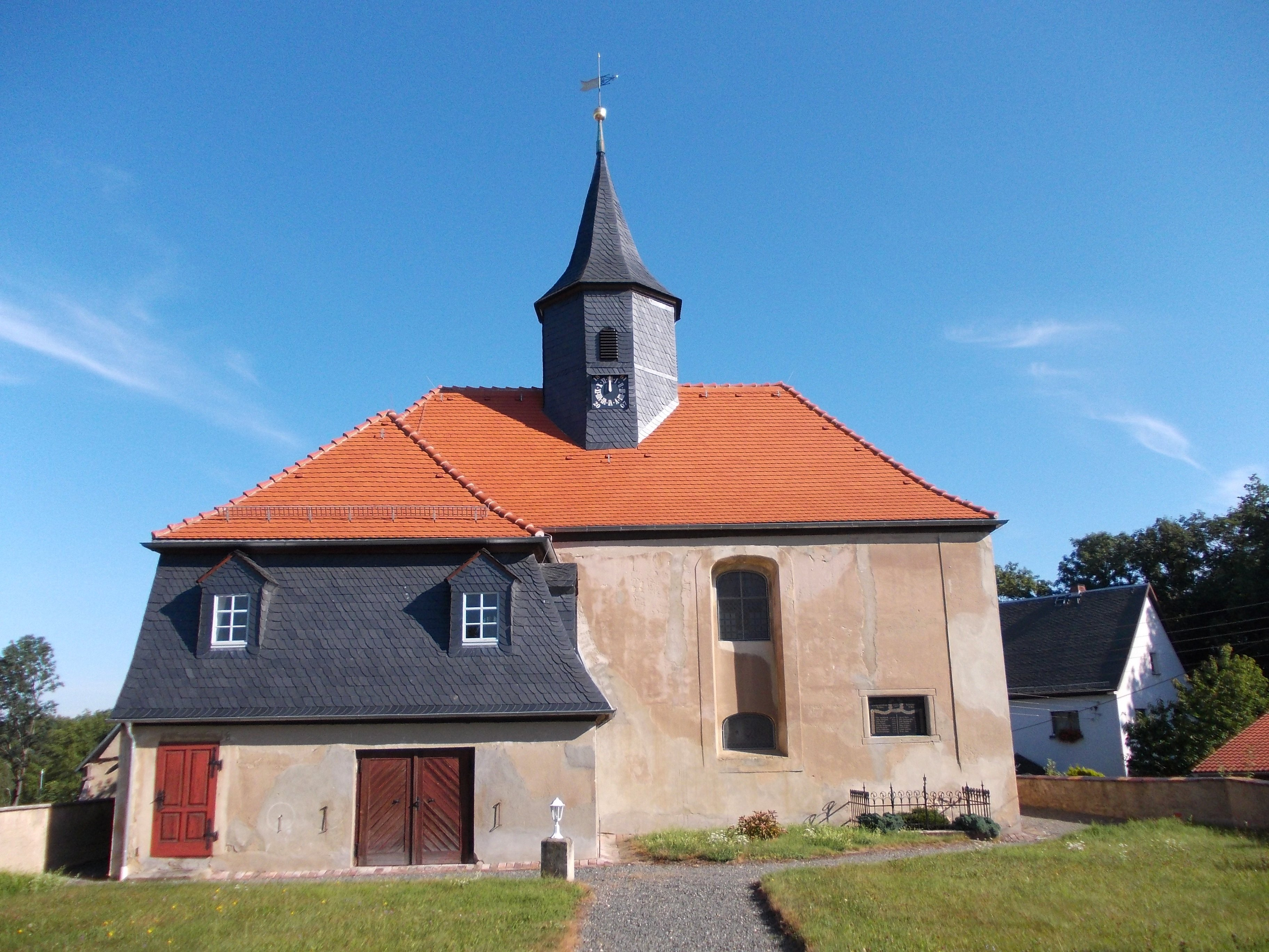 Selka church (Schmölln, district of Altenburger Land, Thuringia)